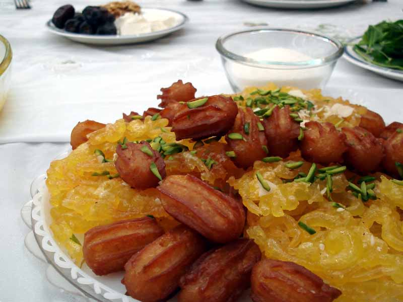 These are the most famous confectionery that are used at Ramadan in Iran. The lighter one is Zolbia and the darker is Bamieh. Green chips are pistachio.